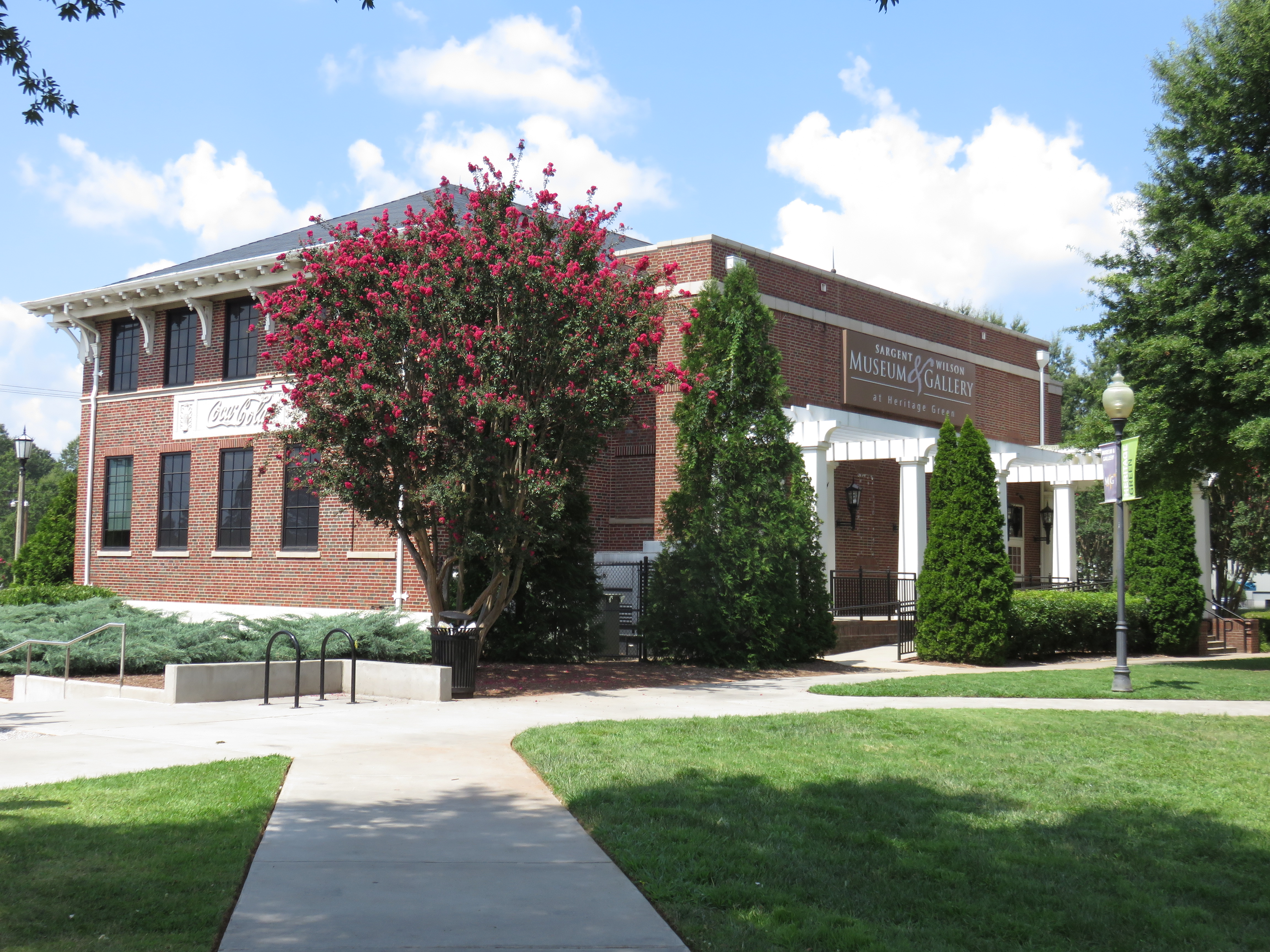 Sargent Wilson Museum & Gallery in Greenville, South Carolina in 2017